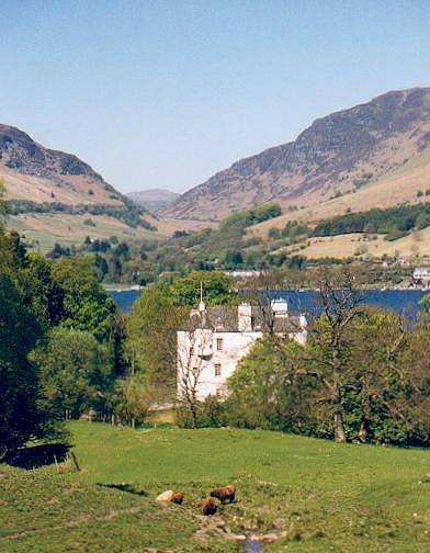 Edinample Castle, Loch Earn, Scotland.